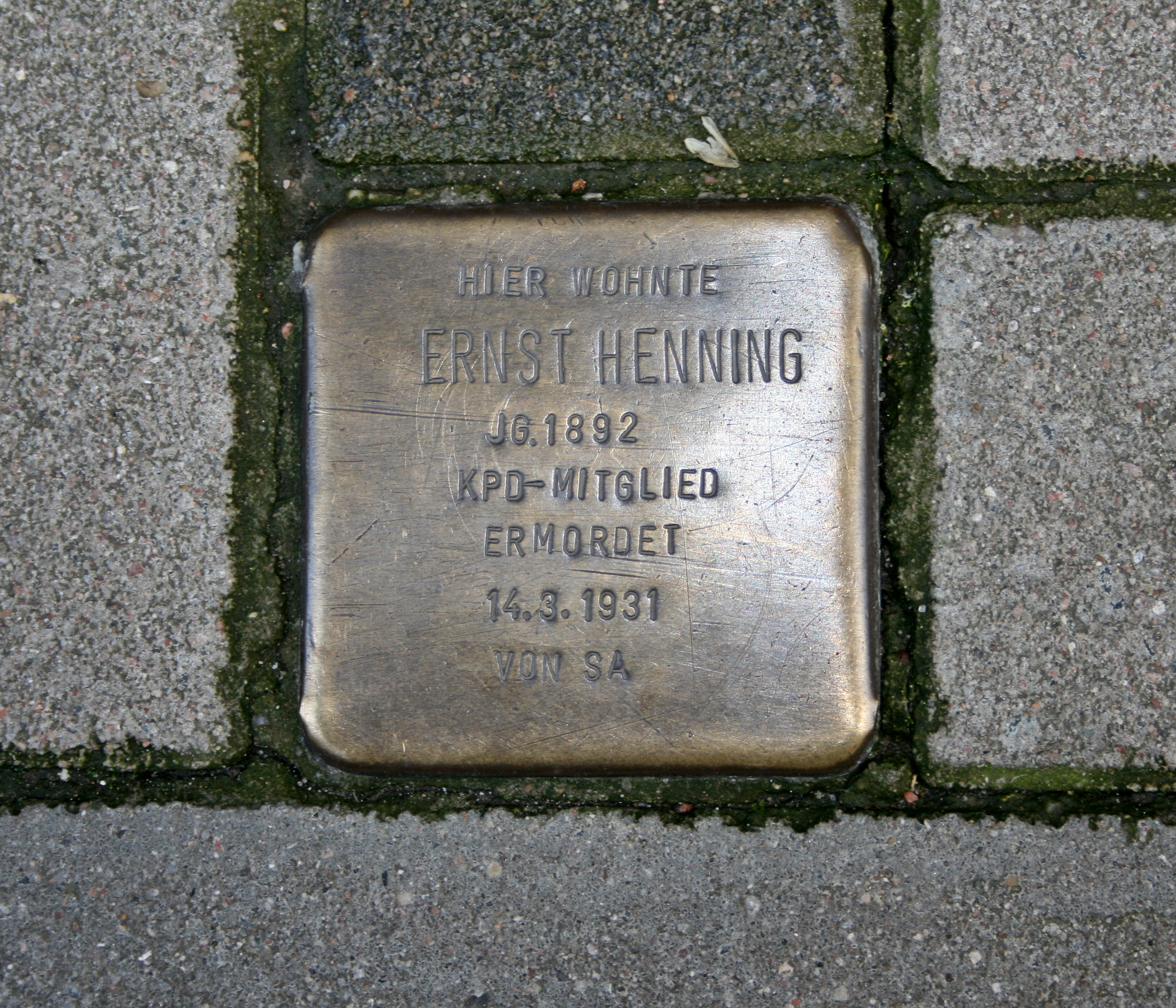 Stolperstein for Ernst Henning in Hamburg-Bergedorf, Hassestraße 11